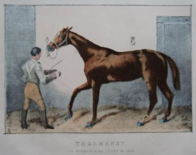 Thormanby, 1860 Epsom Derby winner. hand tinted lithograph by John Sherer, FRGS